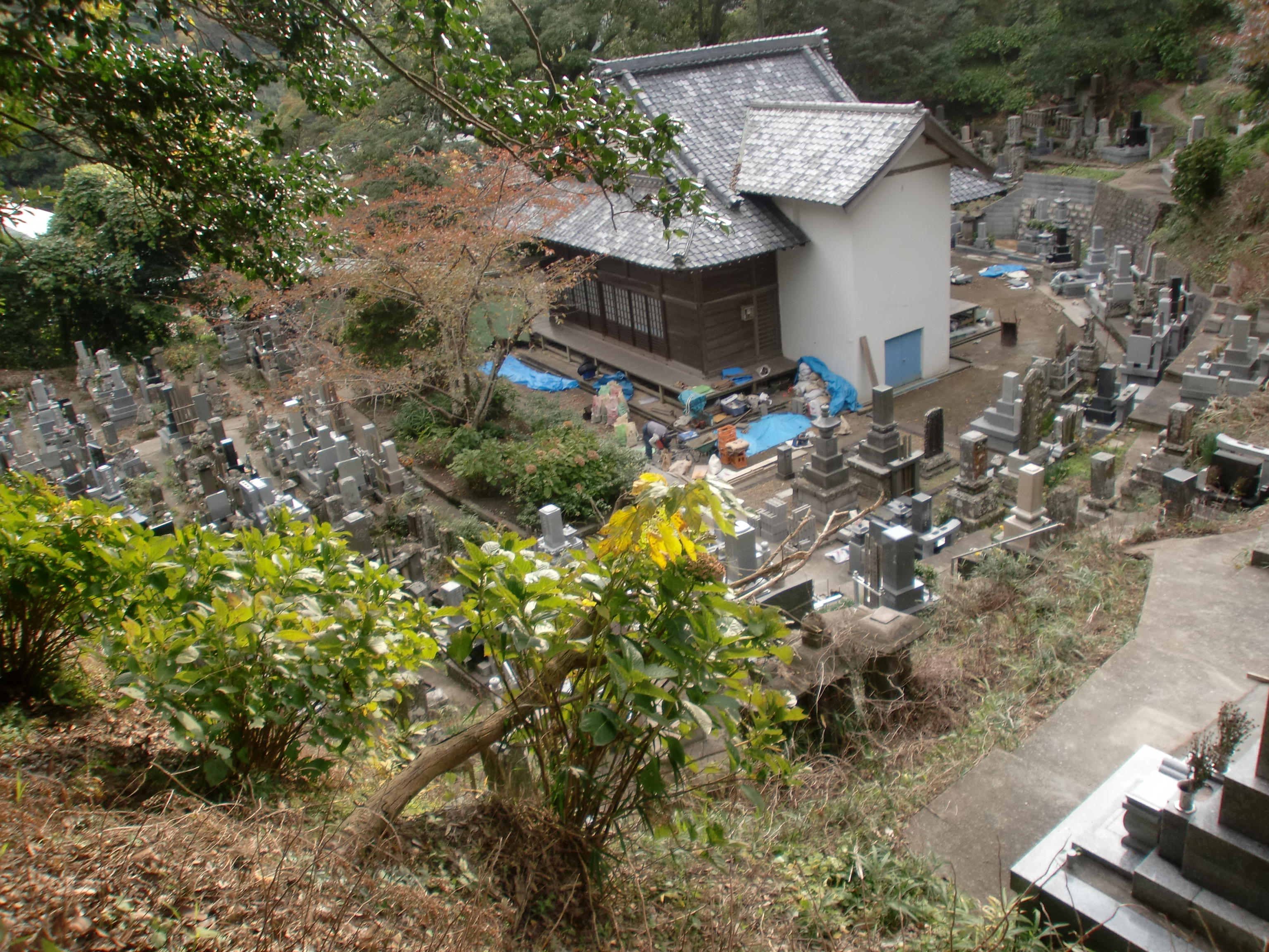 Behind the main hall of the Myohon-ji temple in Kyonan Town, Chiba Prefecture, Japan